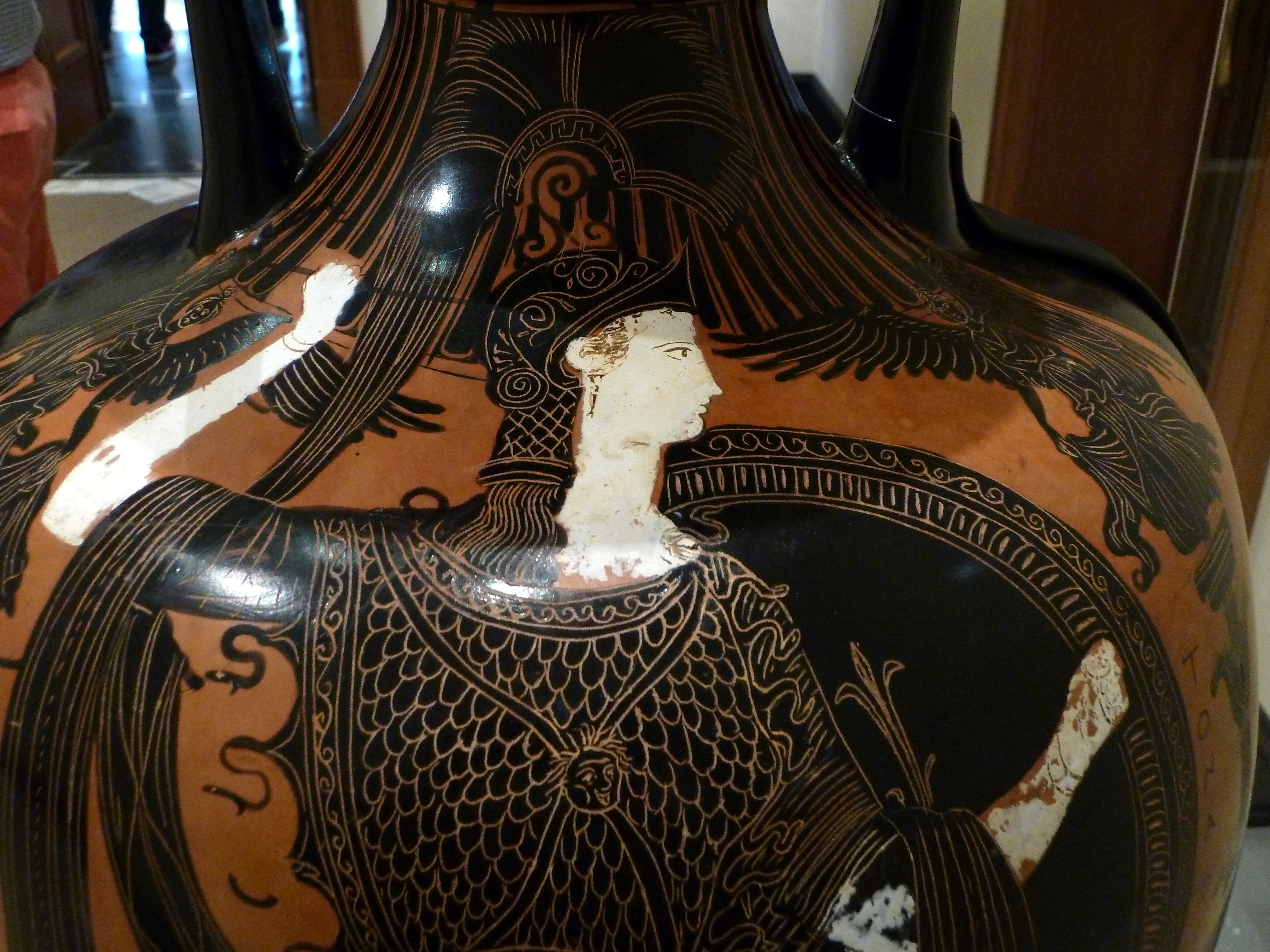 Prize Vessel from the Panathenaic Athenian Games, by Nikodemos potter. (Greek, Athens, 363-362 BC) - Athena (reverse)